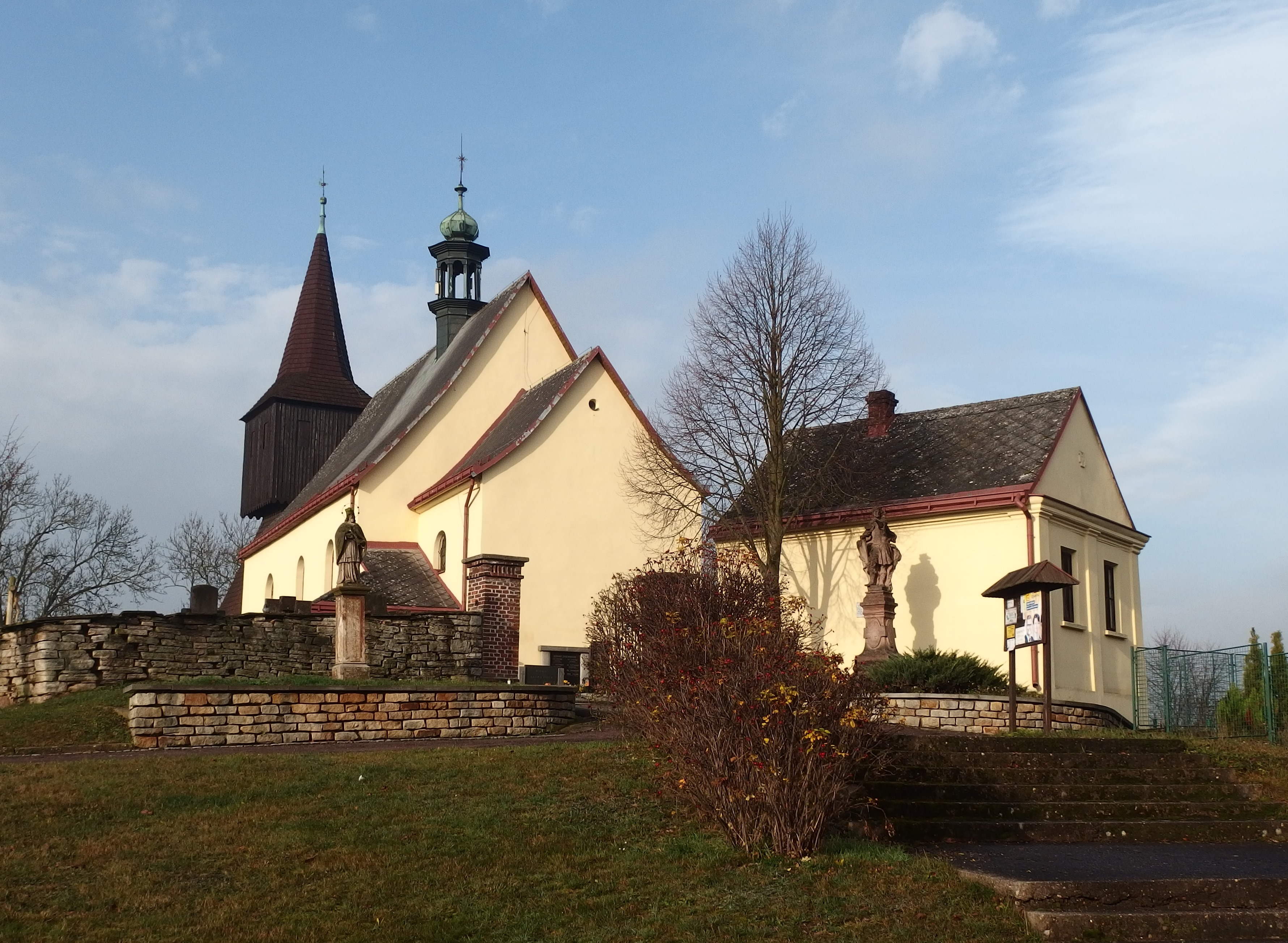 Rtyně v Podkrkonoší, Trutnov District, Czech Republic.